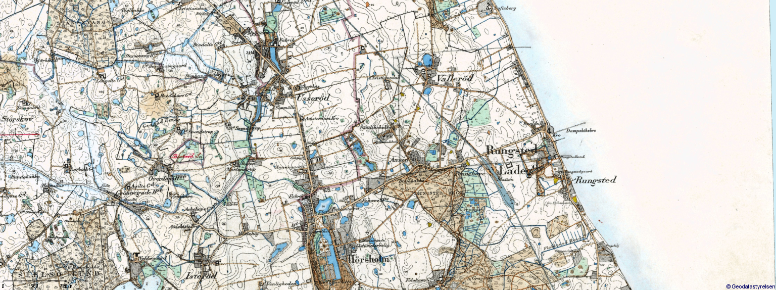 Rungsted 1898